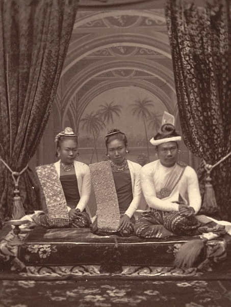 King Thibaw, Queen Supayalat and her sister Princess Supayalay, made from a negative found in the Royal Palace, Mandalay.